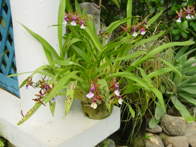 Miltonia clowesii, native species of the Brazilian forests, cultivated in the Rio de Janeiro Botanical Garden. Photo by M. A. P. Accardo Filho.